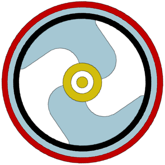 Shieldpattern of Legio Prima Maximiana Thebeorum (ex Legio I Maximiana) early 5th century. Source: Notitia Dignitatum Or. VIII